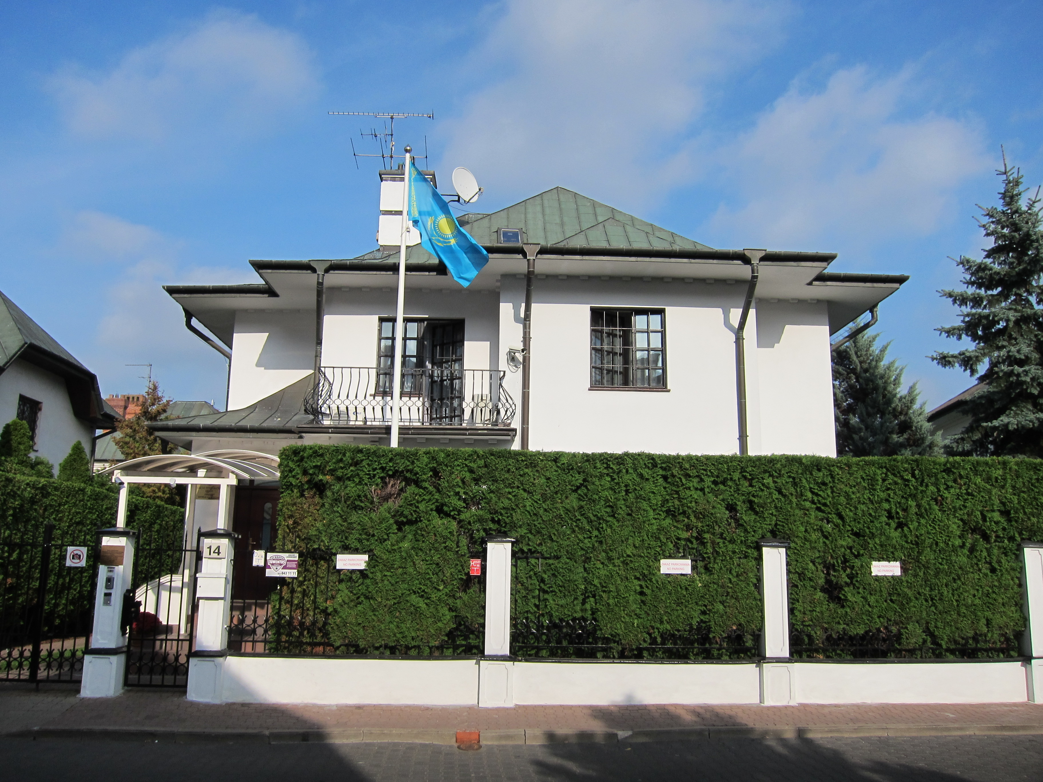 Exterior of the Kazakh Embassy in Warsaw, Poland.